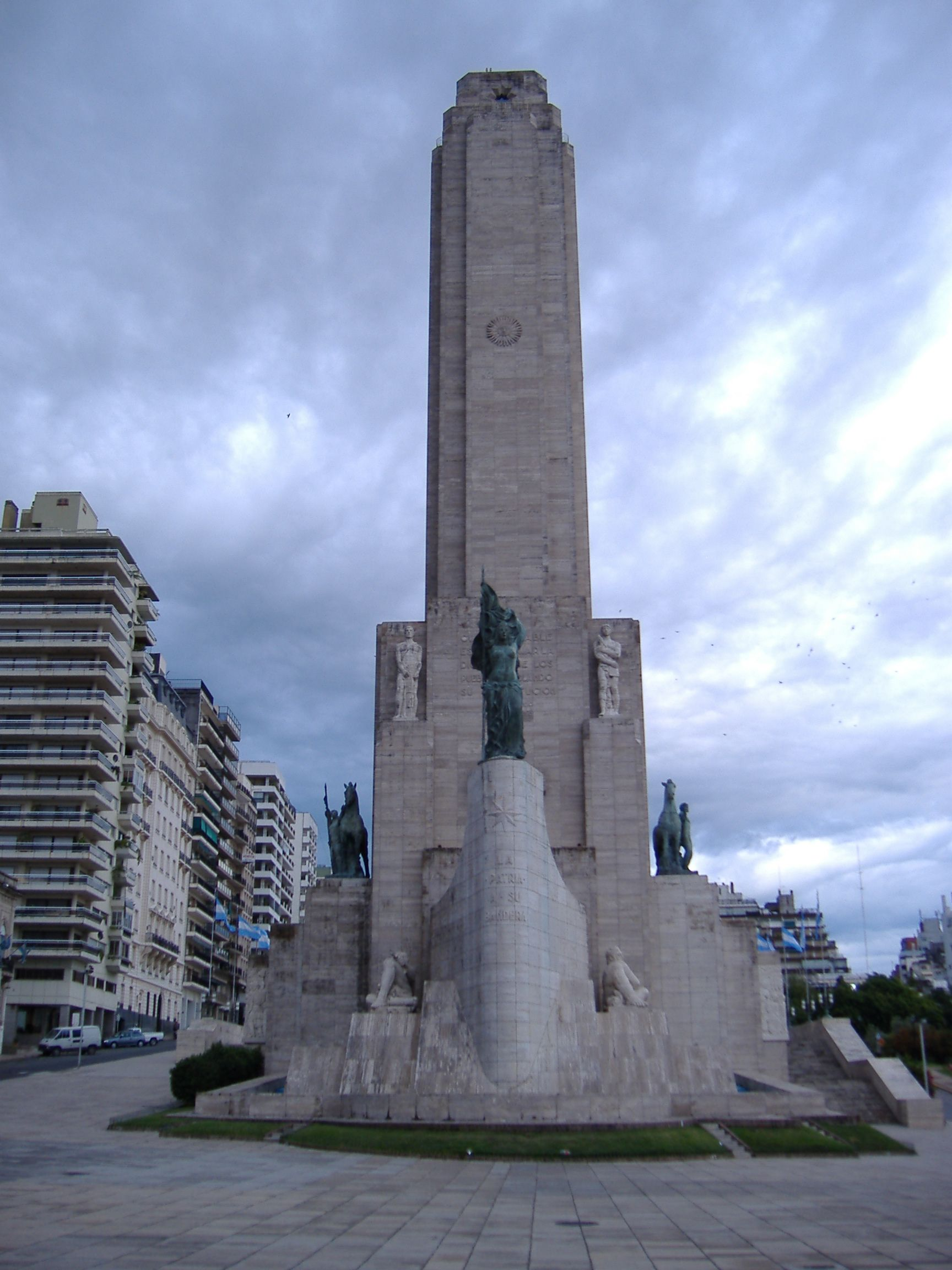 The National Flag Memorial (Monumento Nacional a la Bandera) in Rosario, Argentina, near the banks of the Paraná River. I, Pablo D. Flores, took this picture on 28 February 2006.